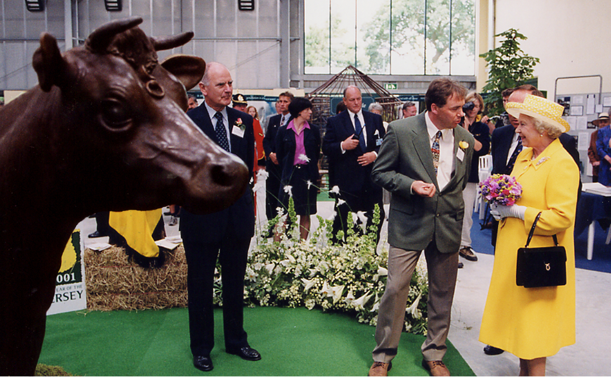 Her Majesty Queen Elizabeth II with sculptor John McKenna showing her his Jersey Cow bronze sculptures.